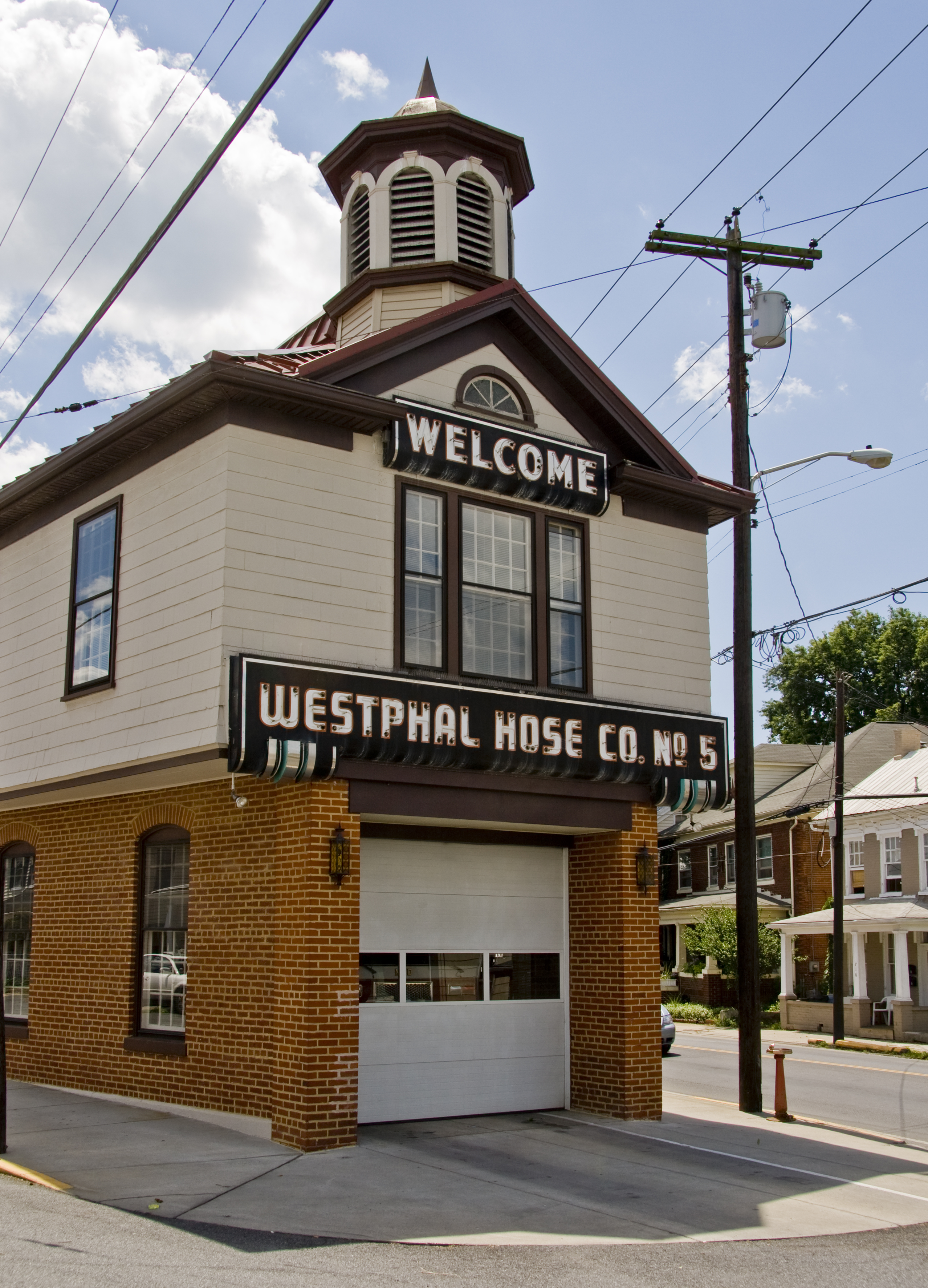 Westphal Hose Co. 5, Martinsburg, West Virginia, USA, part of the East Martinsburg Historic District